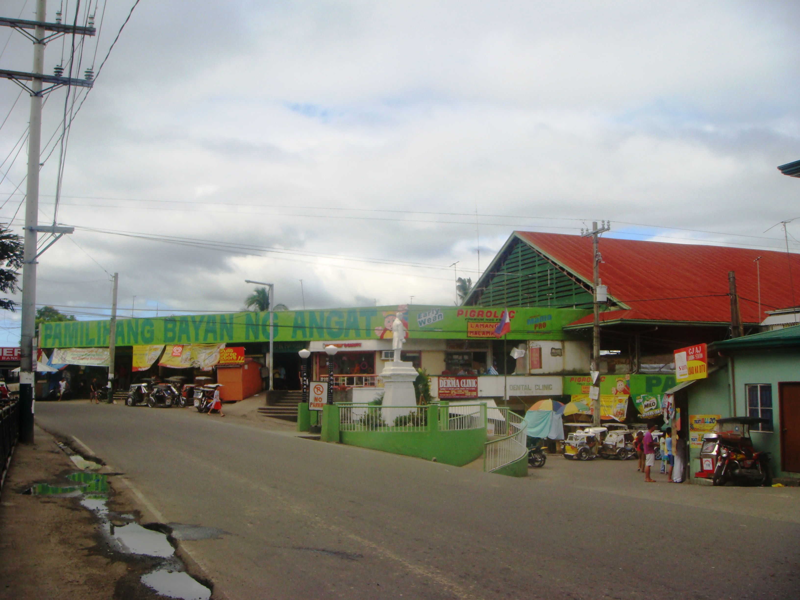 Angat Market (Poblacion).